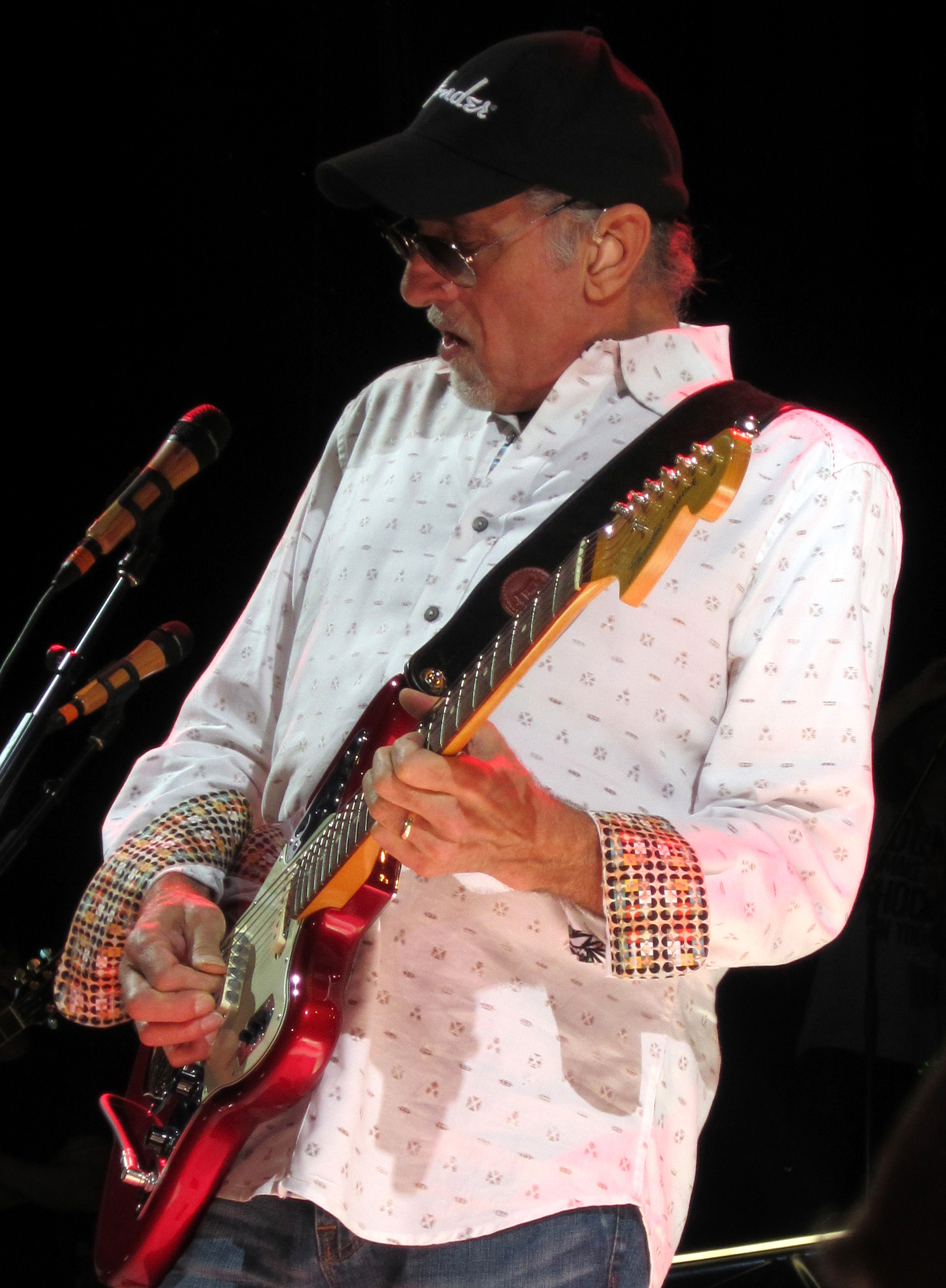 David Marks Playing With The Beach Boys in July 2012